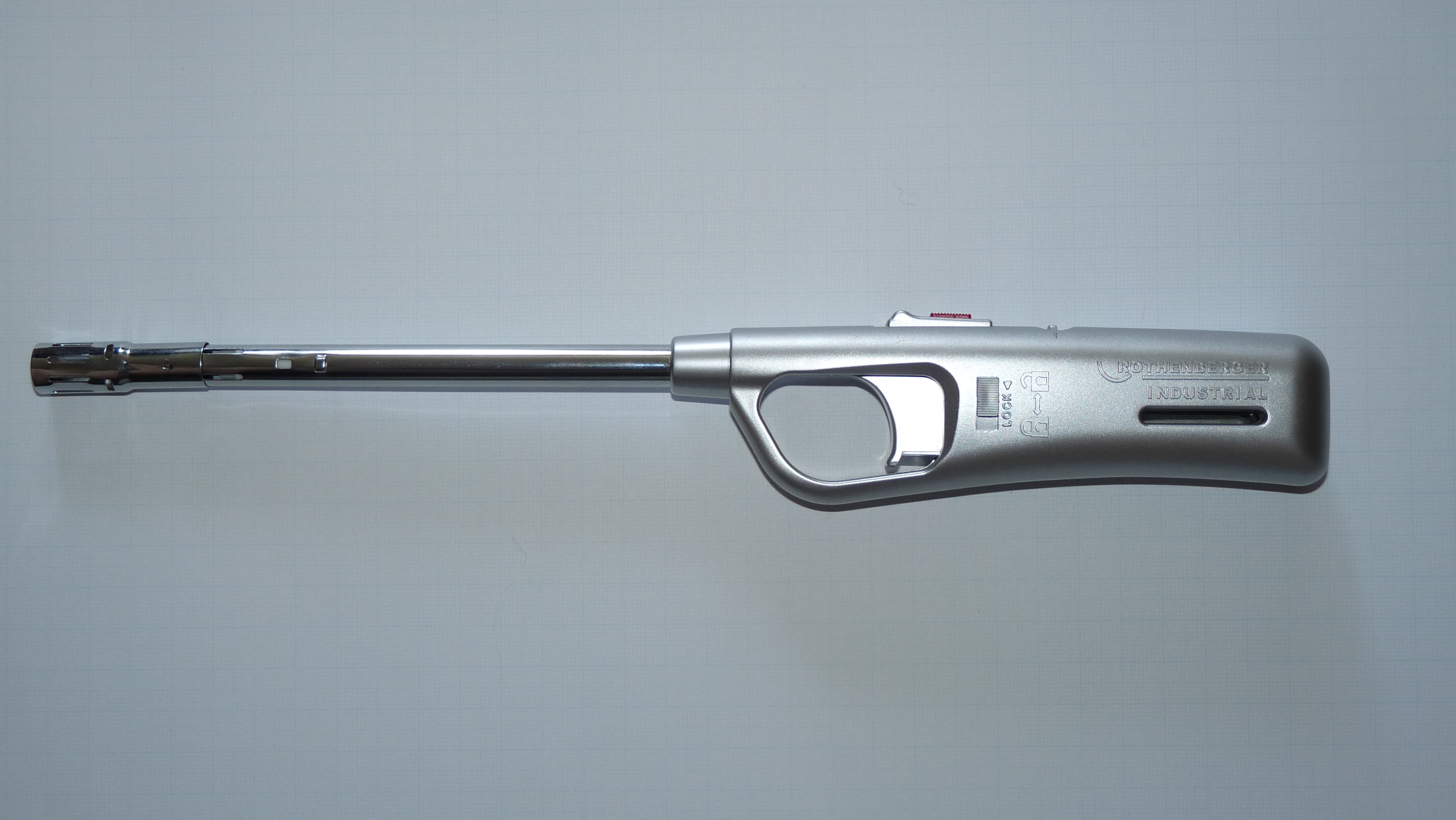 Wind-resistant lighter; principially bought for igniting blowtorch due to long nozzle, cause usual lighter is suitable better to cigarettes, but igniting blowtorch by it involves skin burns in fingers.